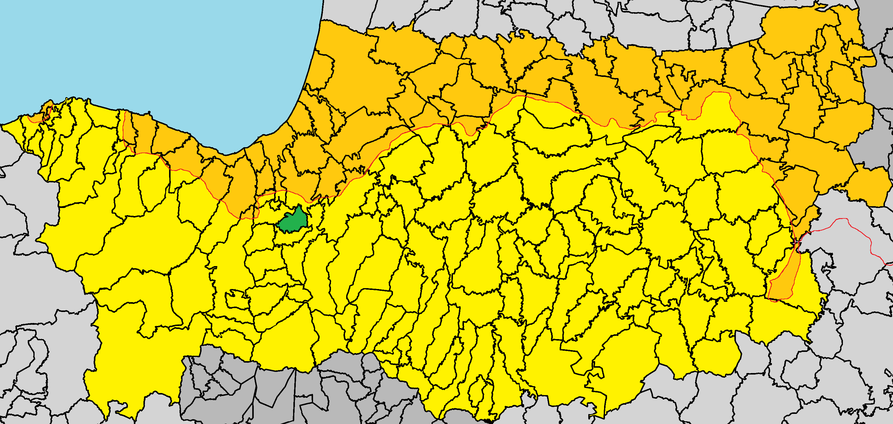 Linou in Nicosia District.